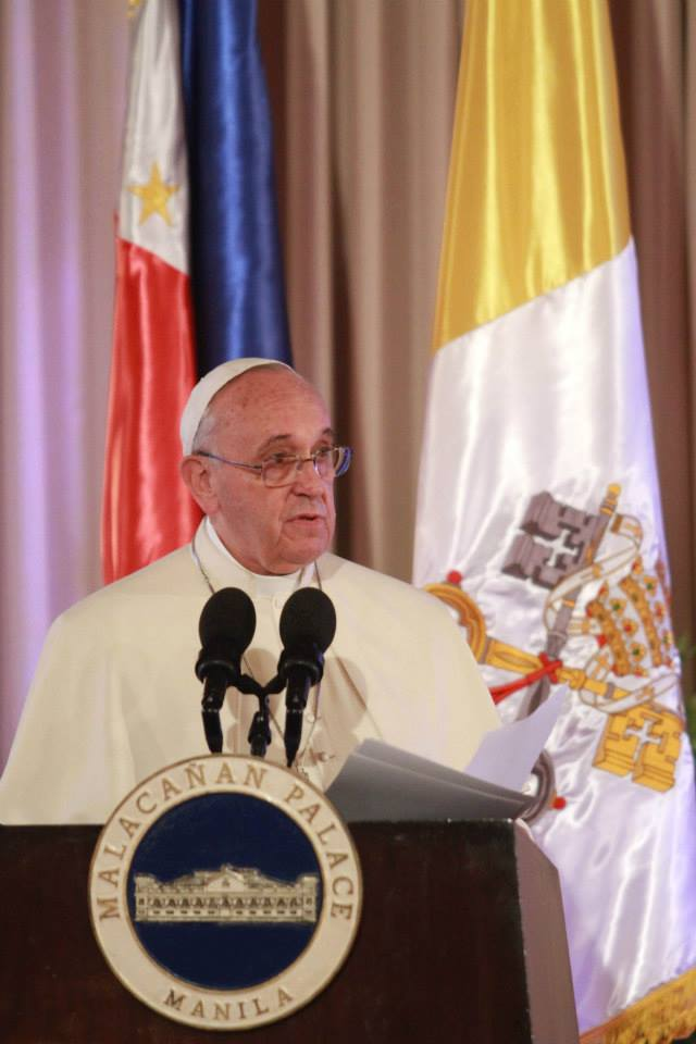 His Holiness Pope Francis delivers his message during the General Audience of senior Government Officials and members of the Diplomatic Corps at the Rizal Hall of the Malacañan Palace for the State Visit and Apostolic Journey to the Republic of the Philippines on Friday (January 16, 2015)